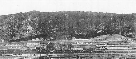 Seidaimon Prison